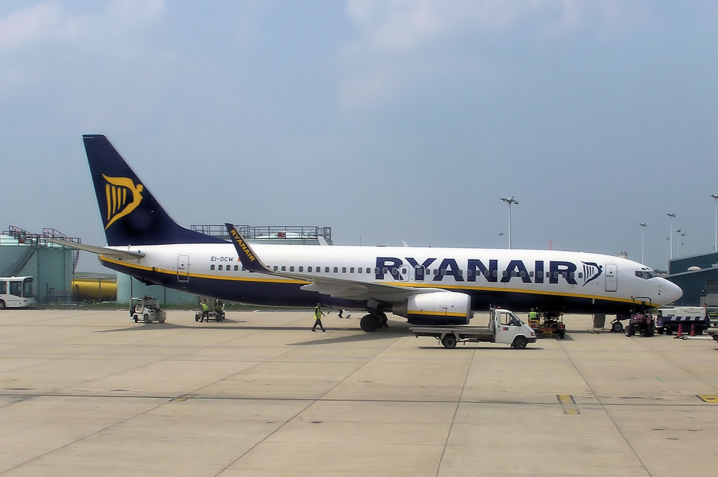 Ryanair Boeing 737-800 (EI-DCW) on the ramp at Bristol International Airport, Bristol, England. Photographed by Adrian Pingstone in March 2007 and placed in the public domain.